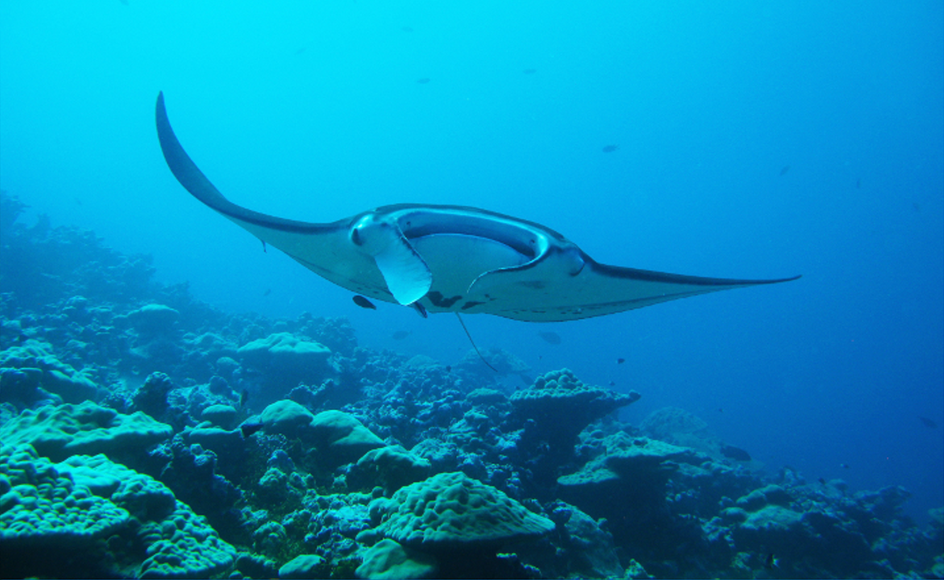 The deeper backreef (10 m) (F) has a steep slope incline (30–50°). Photo credit: Gareth J. Williams.